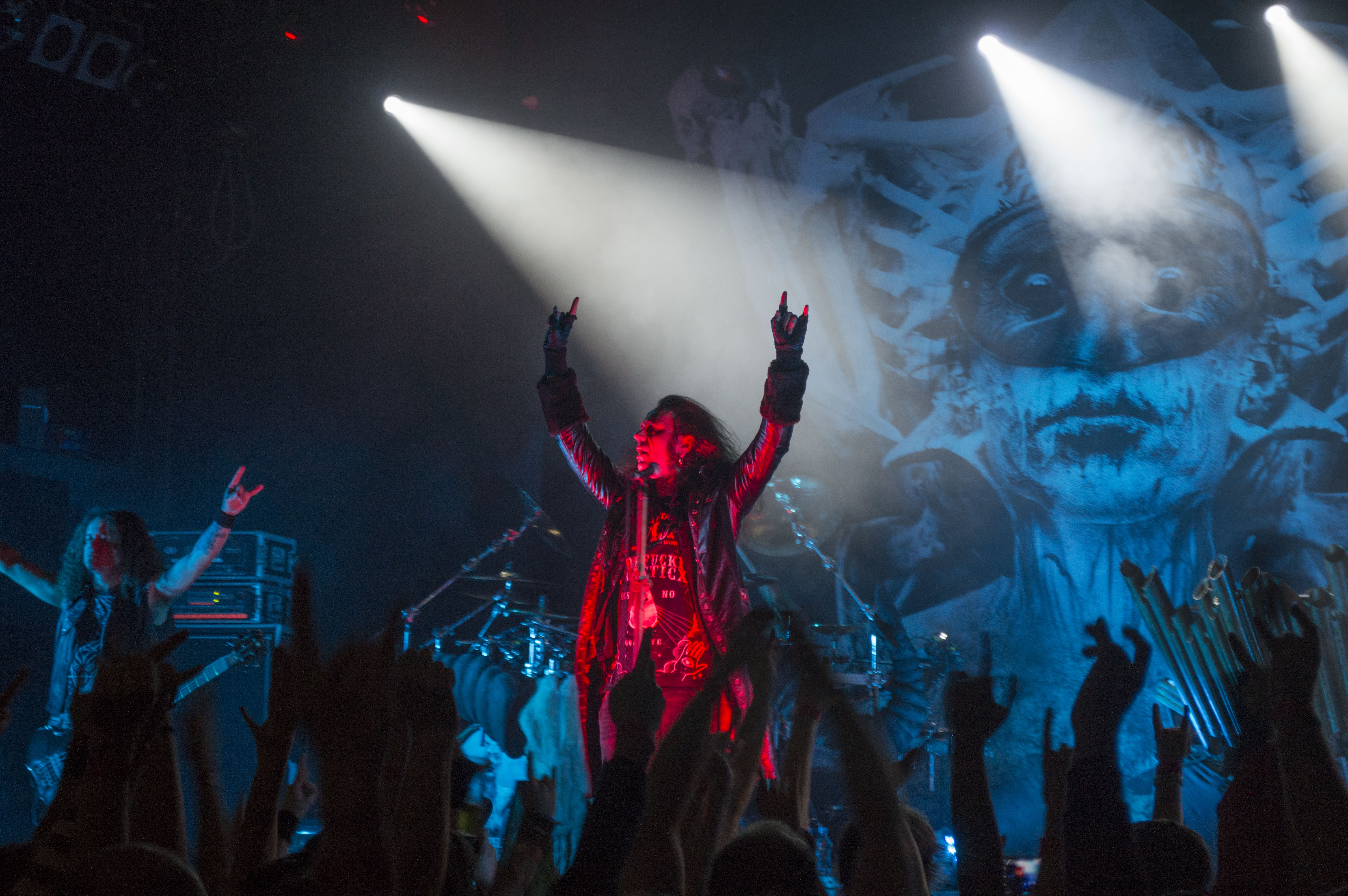 Moonspell at Bratislava, Majestic club, 27th October 2015.